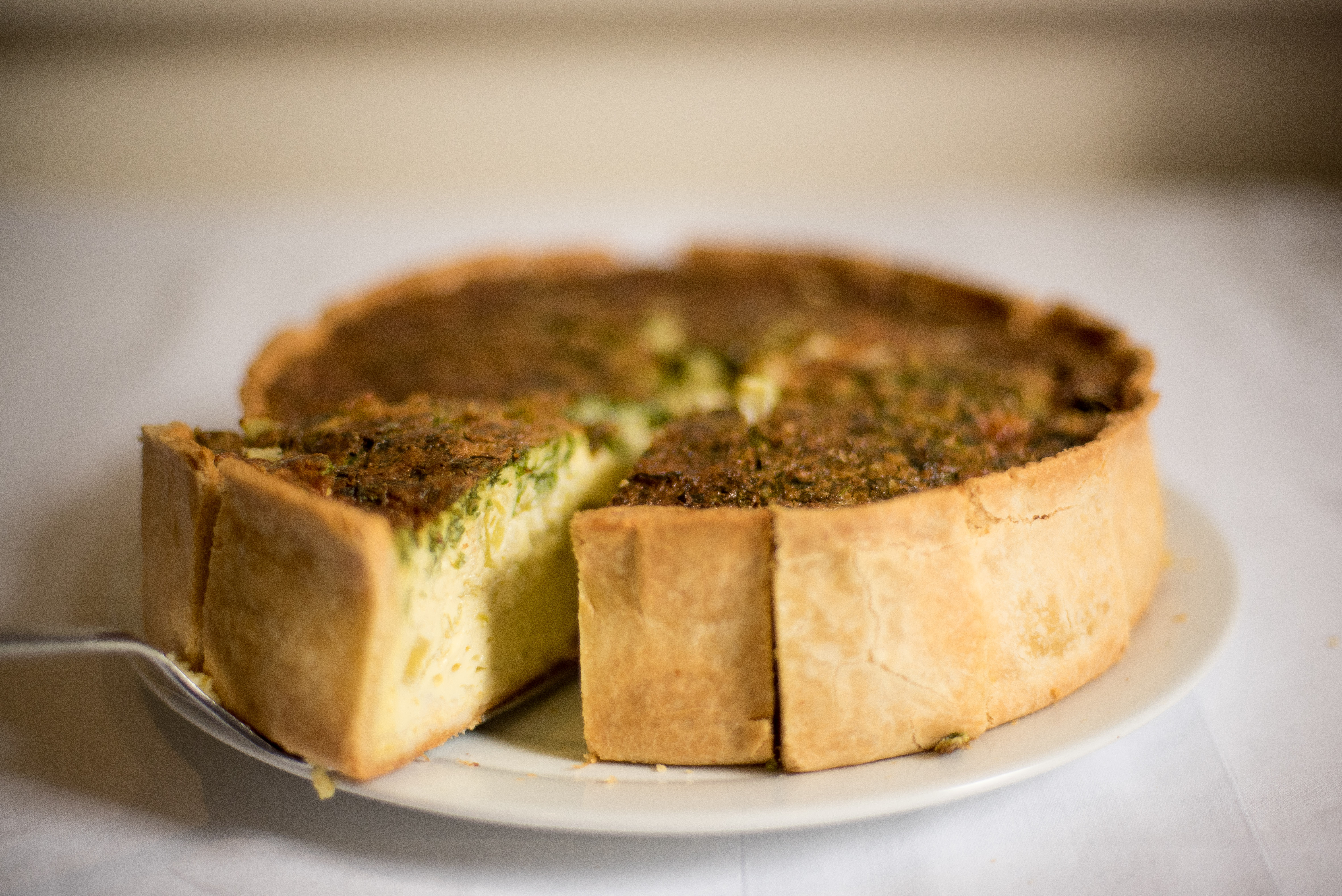 timothy muza 2016